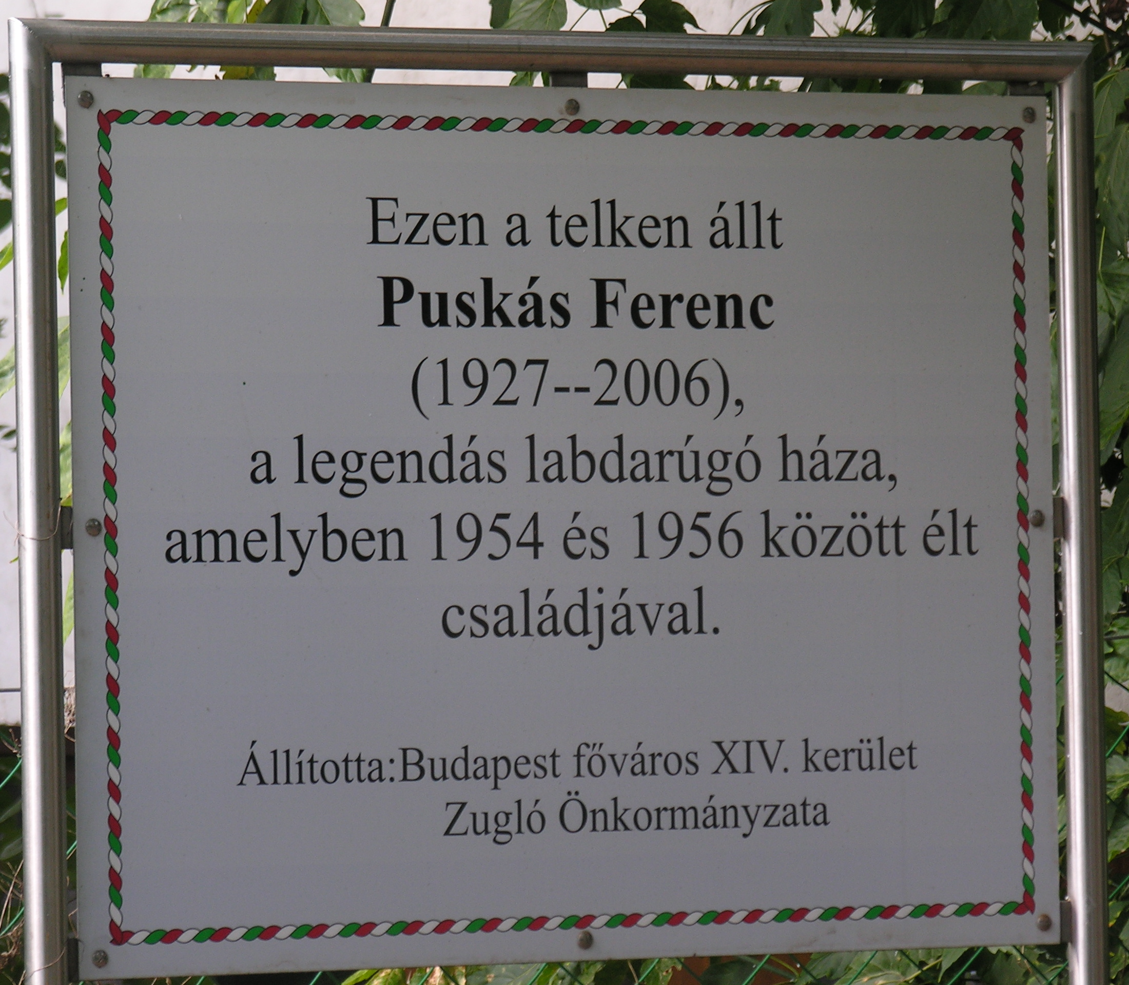 Commemorative plaque of Ferenc Puskás, Budapest District XIV, Columbus Street 57/a